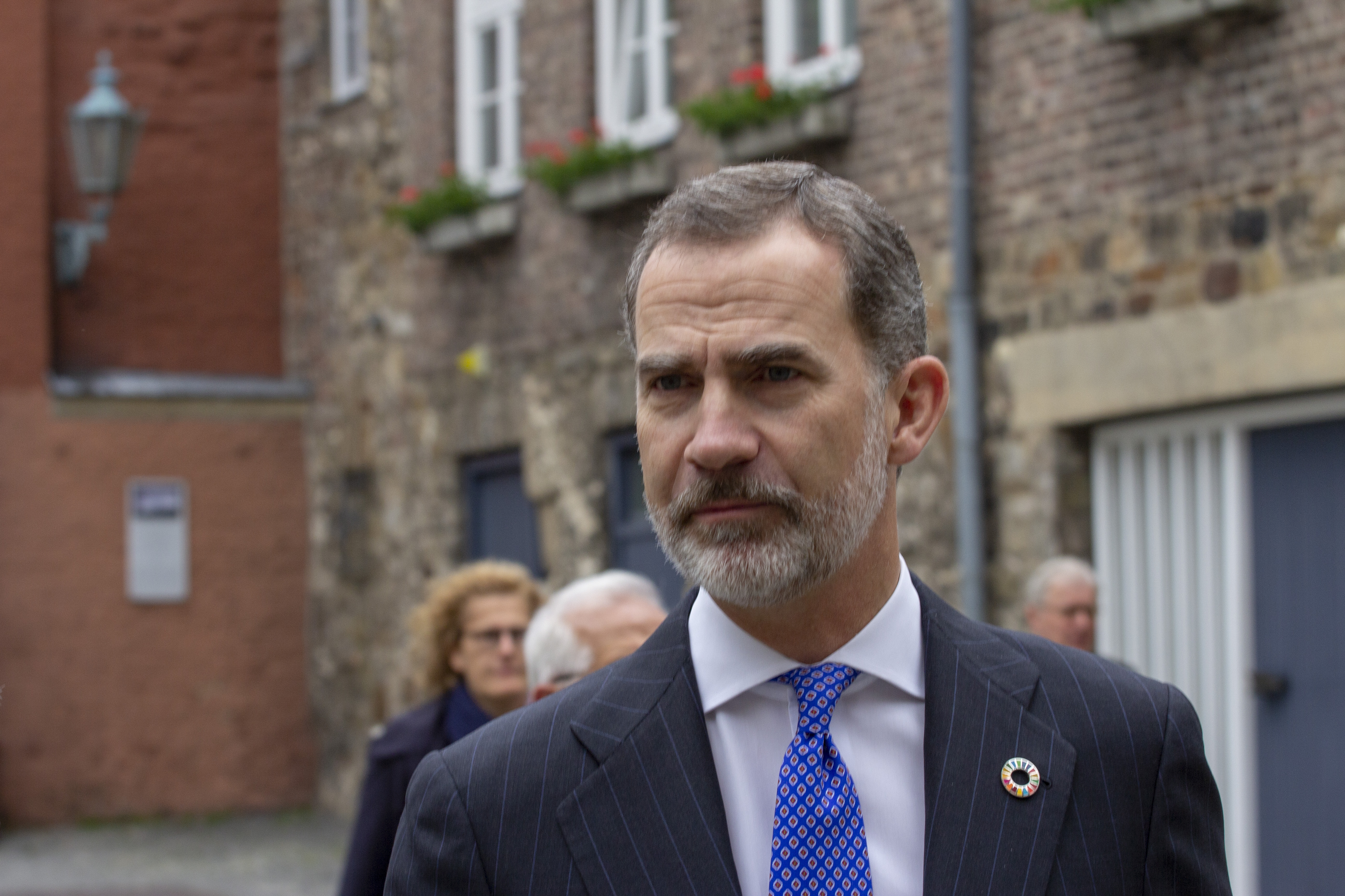 Felipe VI of Spain at the Charlemagne Prize.